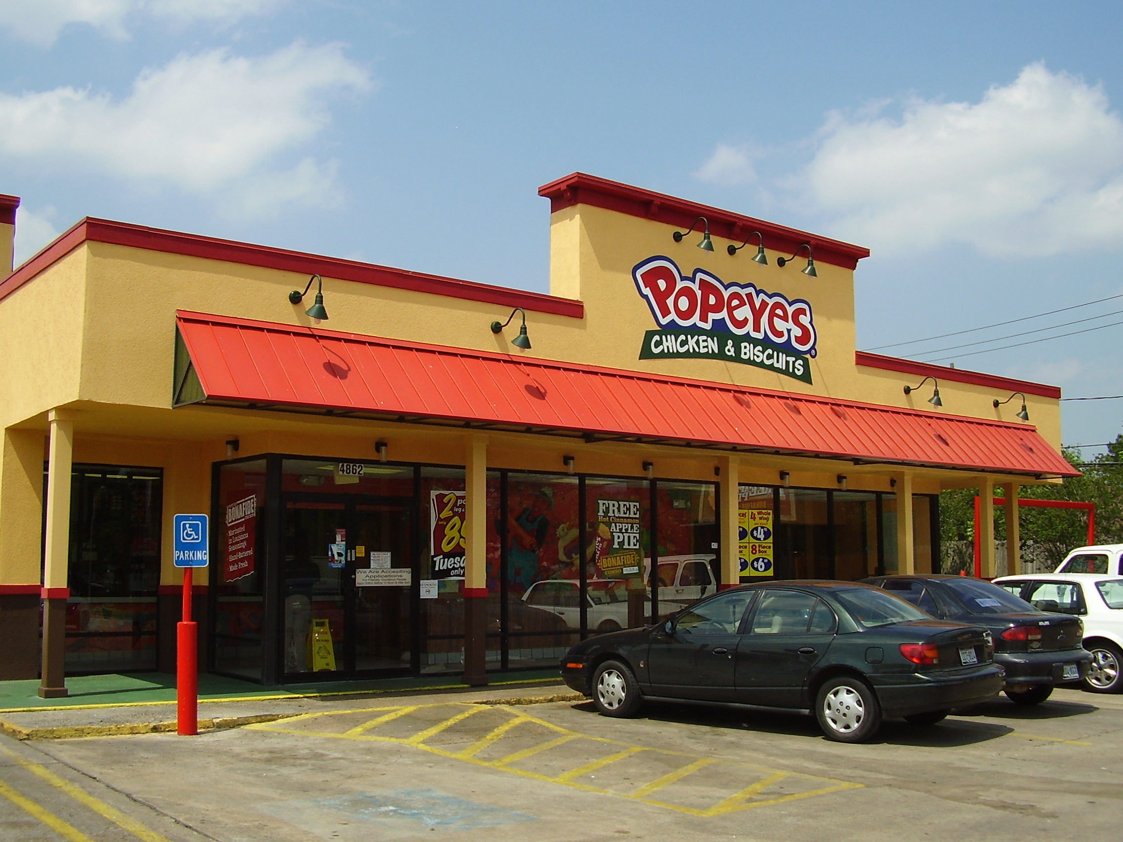 Popeyes Chicken & Biscuits location at 4862 Willowbend, Houston, TX Taken by User:WhisperToMe Public domain